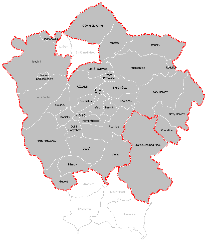 City quarters of Liberec